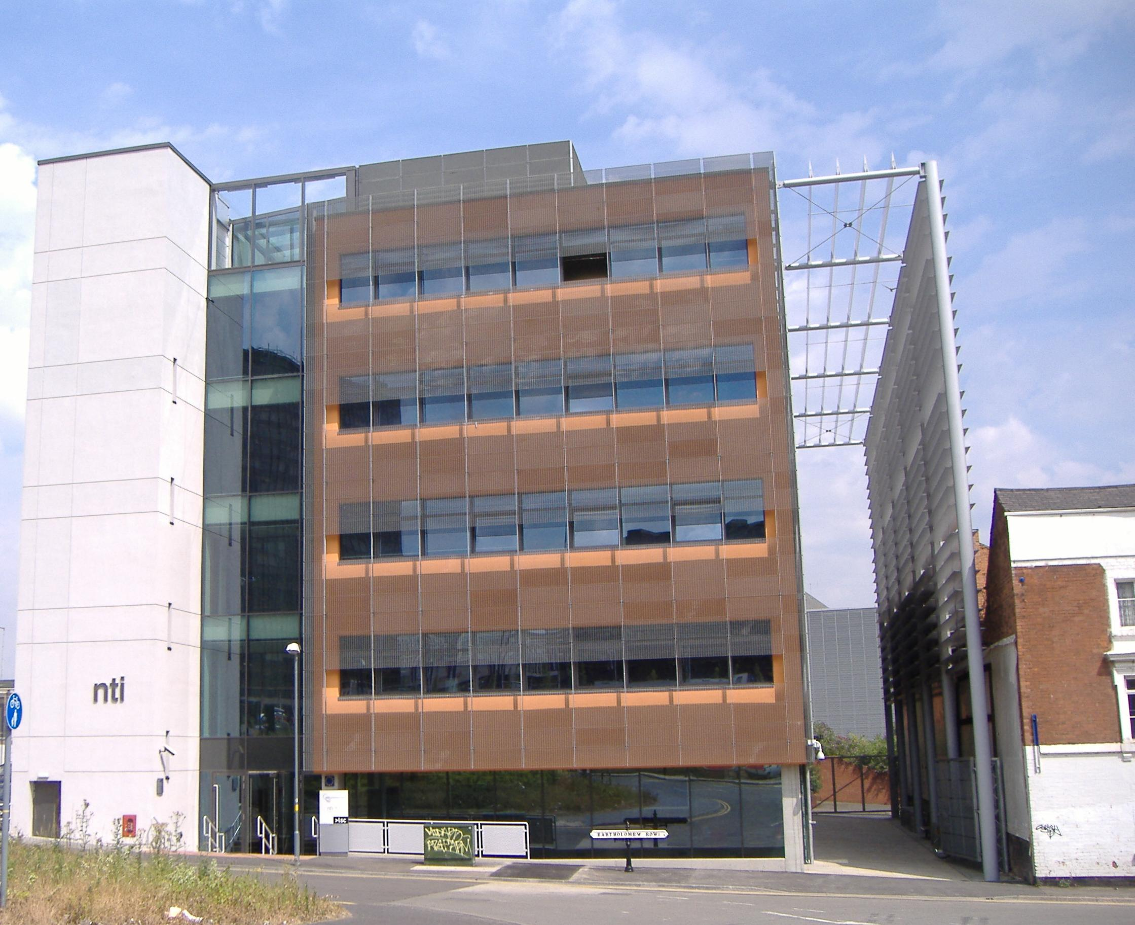 The New Technology Institute (nti) in Birmingham, England, UK.